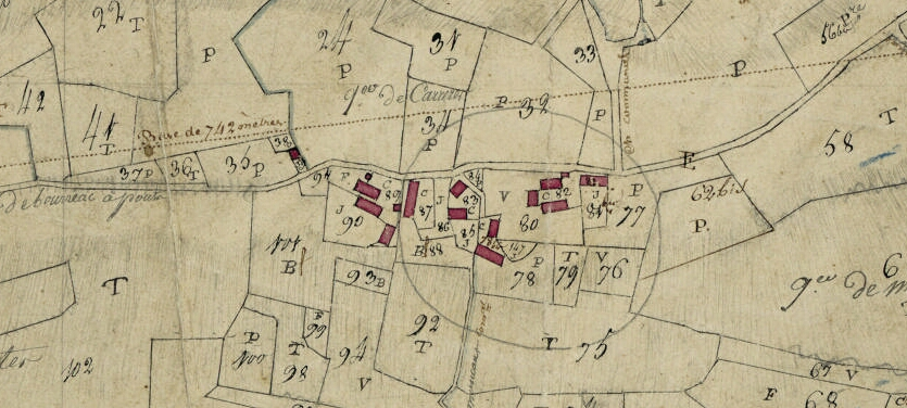 Napoleonian cadastral map (1809) of Recahorts (Bourréac village) Hautes-Pyrénéees, France